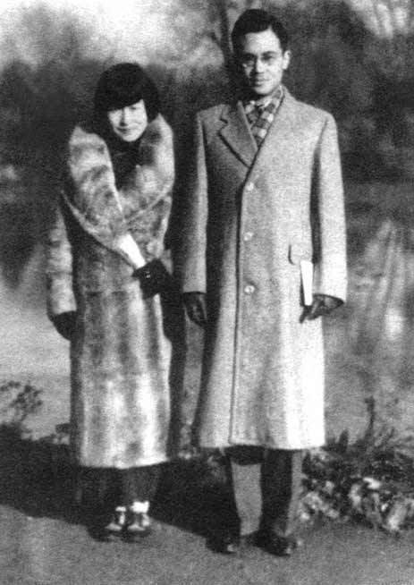 Qian Zhongshu and Yang Jiang at Oxford University Parks in 1932